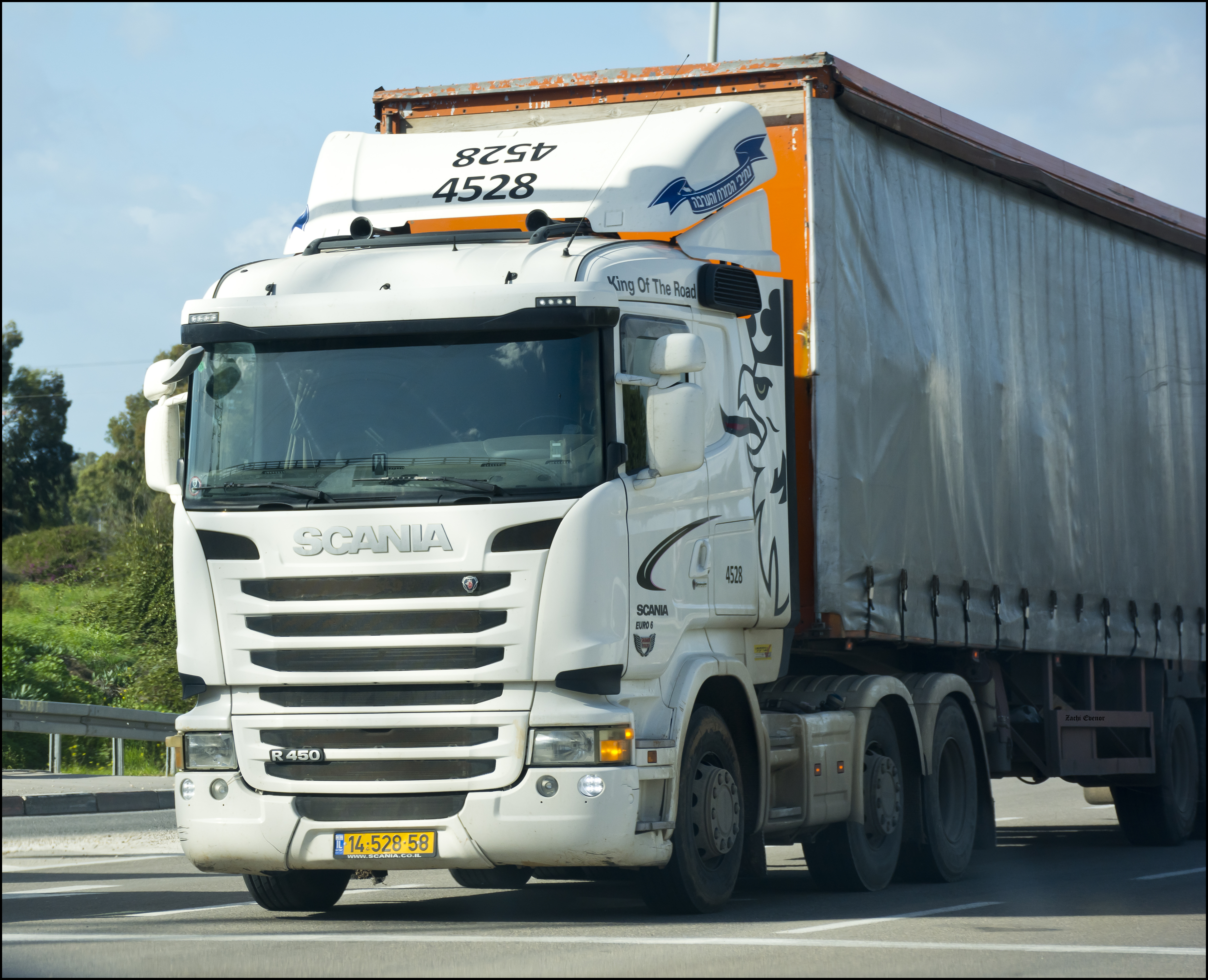 Scania R450 semi-trailer truck, Israel